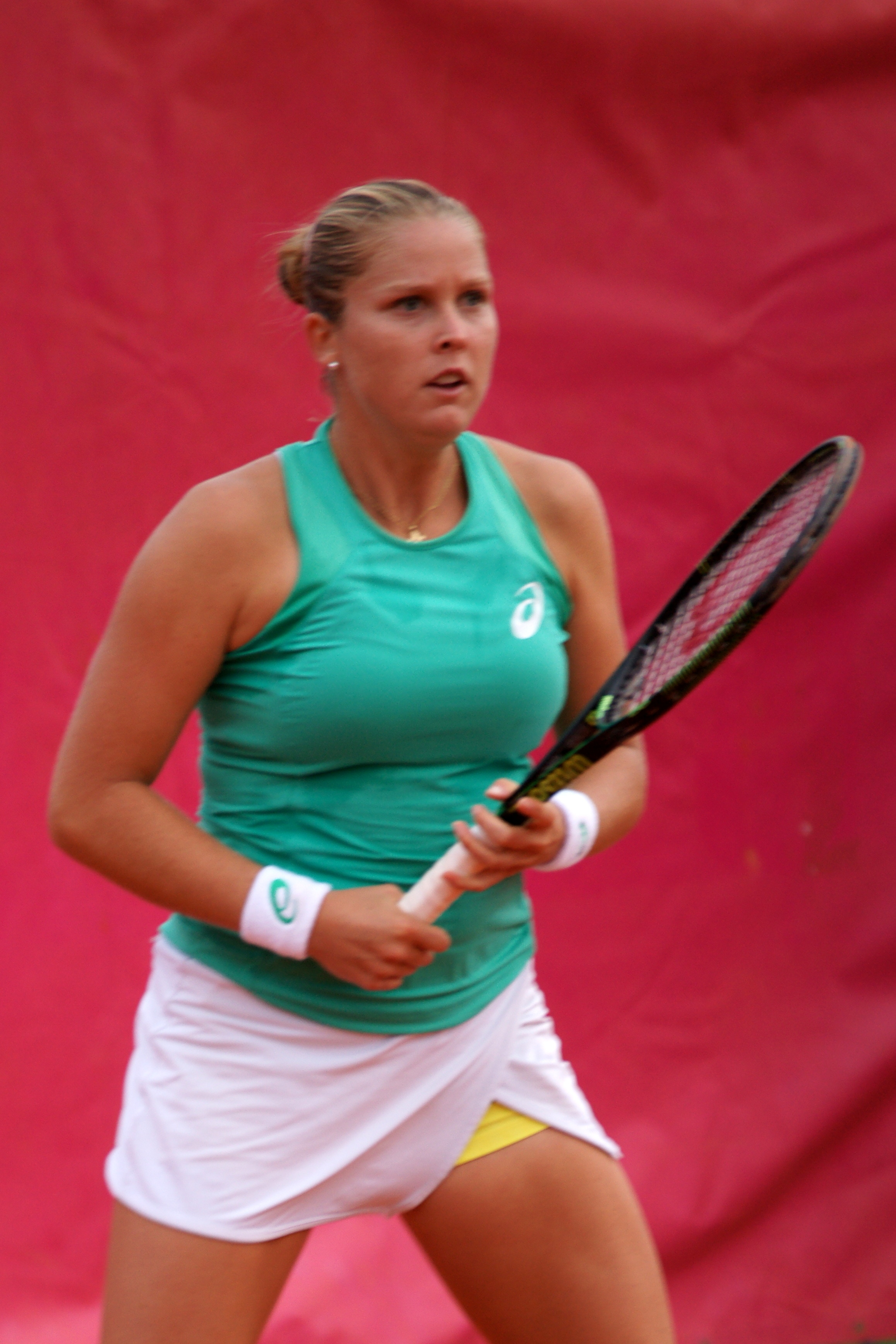 Shelby Rogers, Open ITF Cagnes 2015